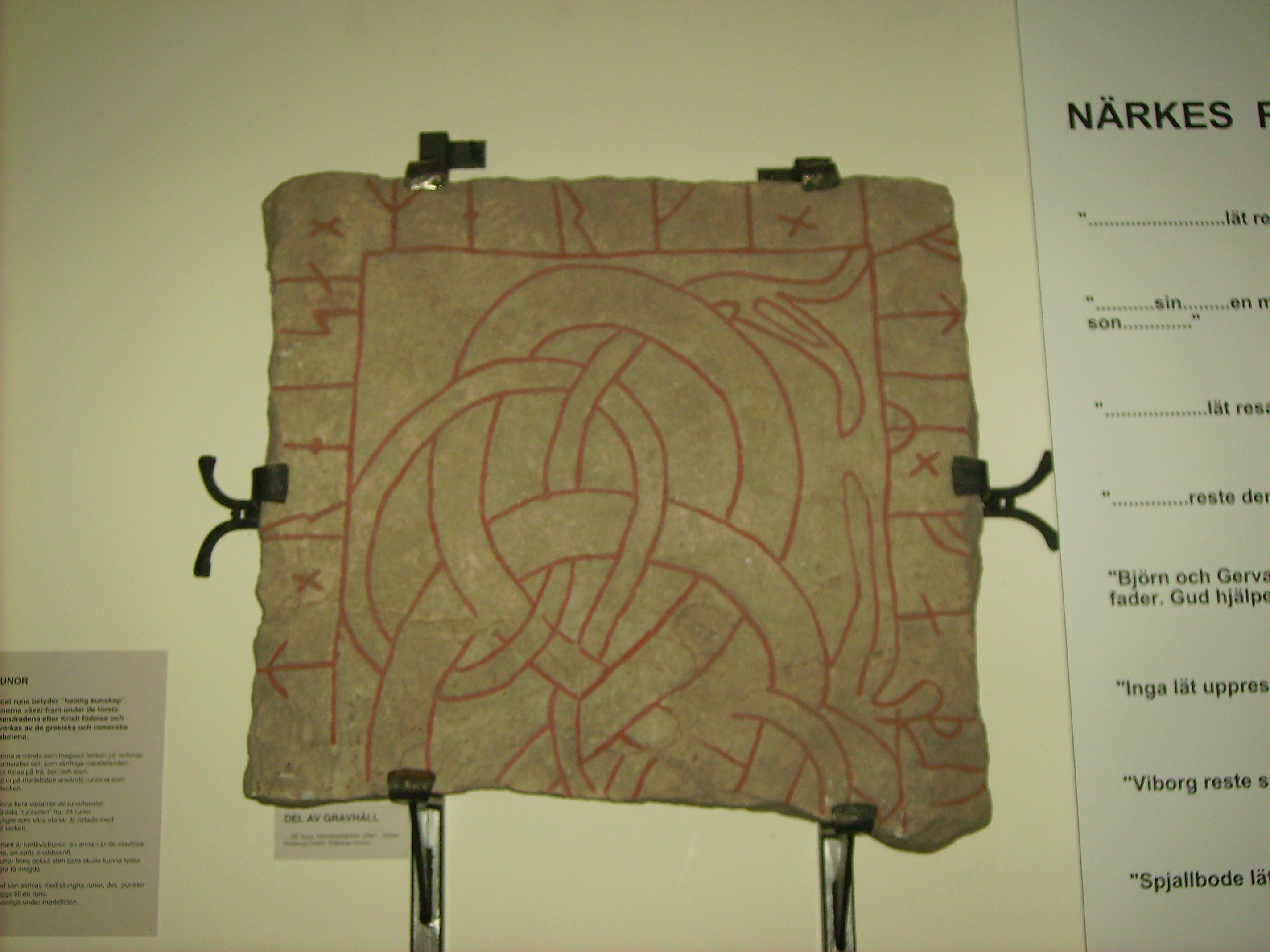 Rune stone from Riseberga in Närke, Sweden.